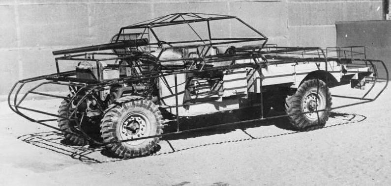 Photograph of a jeep fitted with a metal frame for a wood or canvas cover to masquerade as a tank. Taken by British Army Captain Gerald Leet, 1942, at the Middle East School of Camouflage.